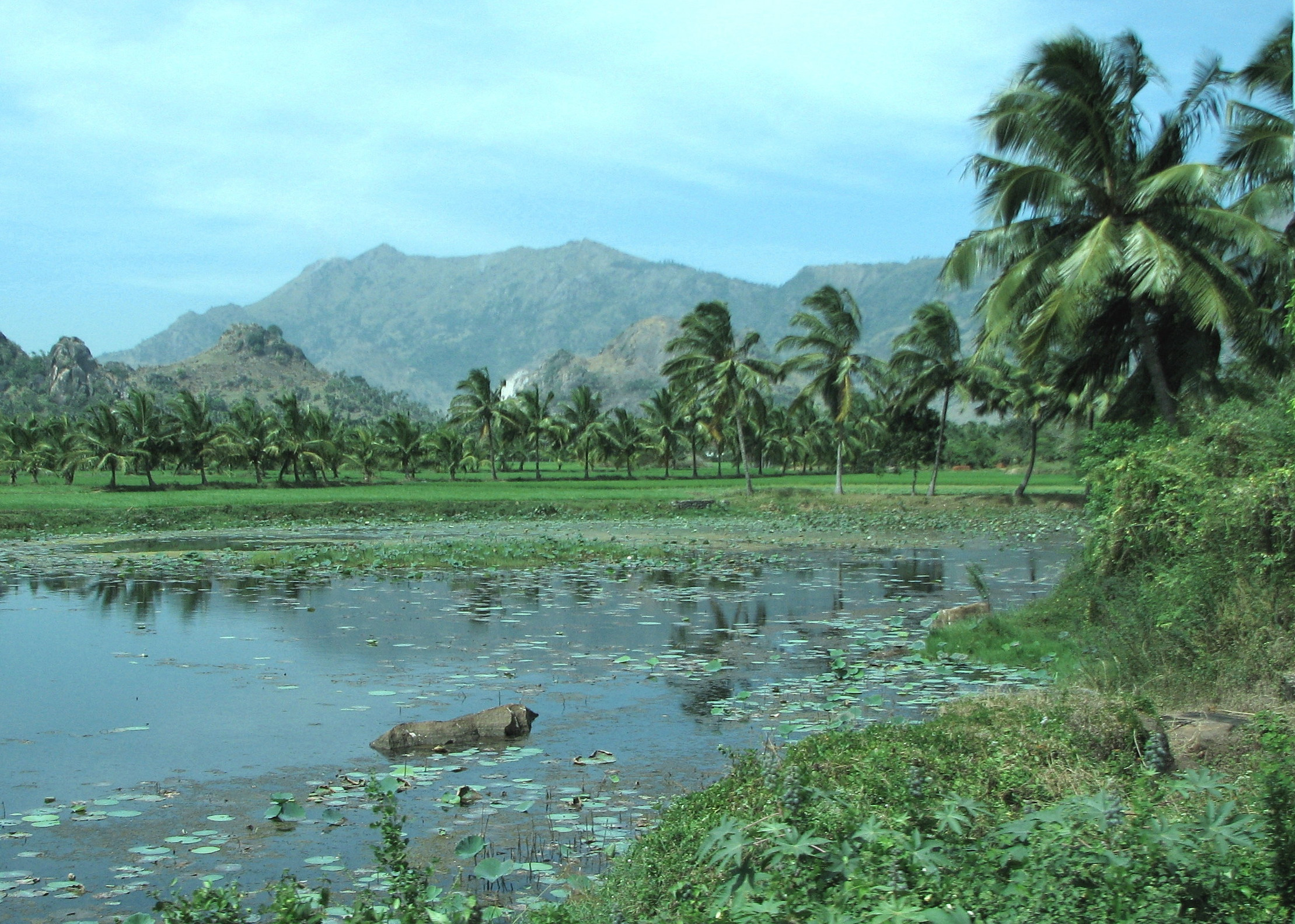 self-made Image ; Author's Name : Infocaster